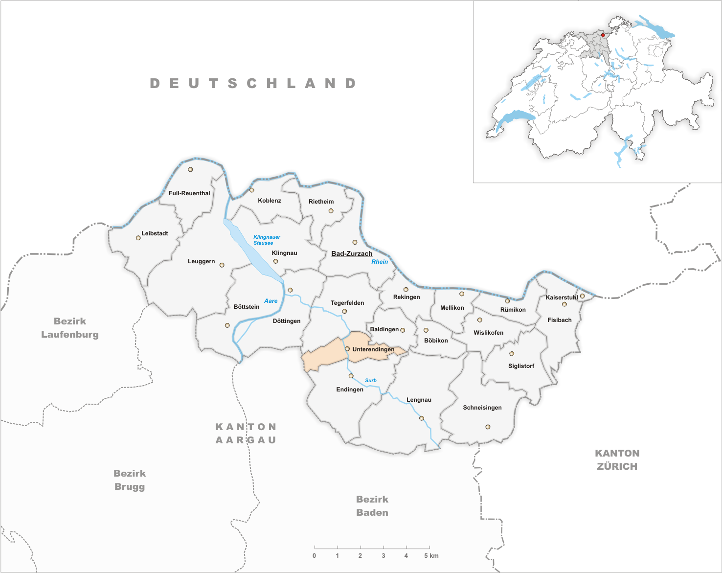 Municipality Unterendingen